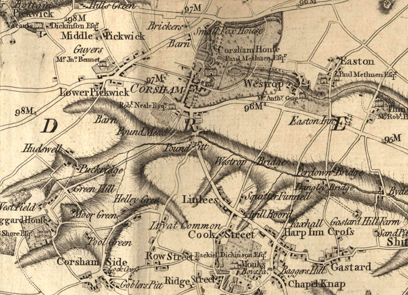 Extract of Andrews’ and Dury’s Map of Wiltshire, 1773, showing Corsham